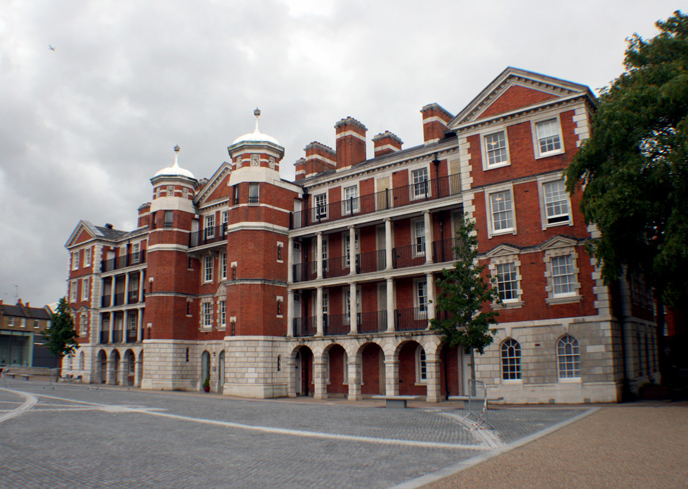 Chelsea College of Art and Design (North Block) - 2008